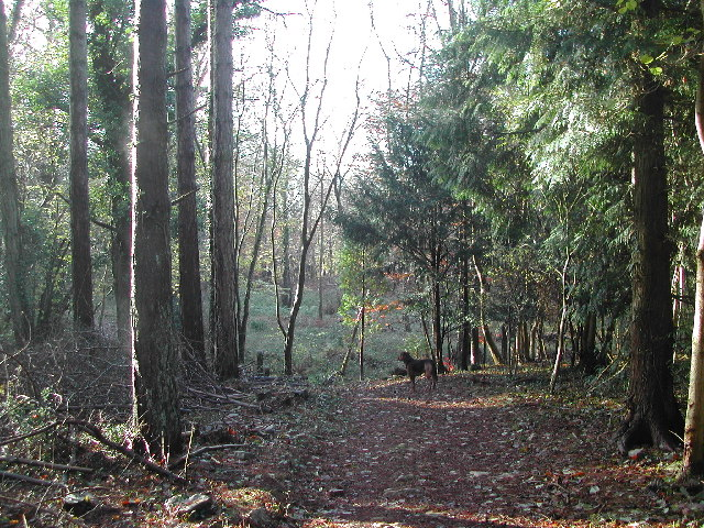 King's Wood - typical scenery